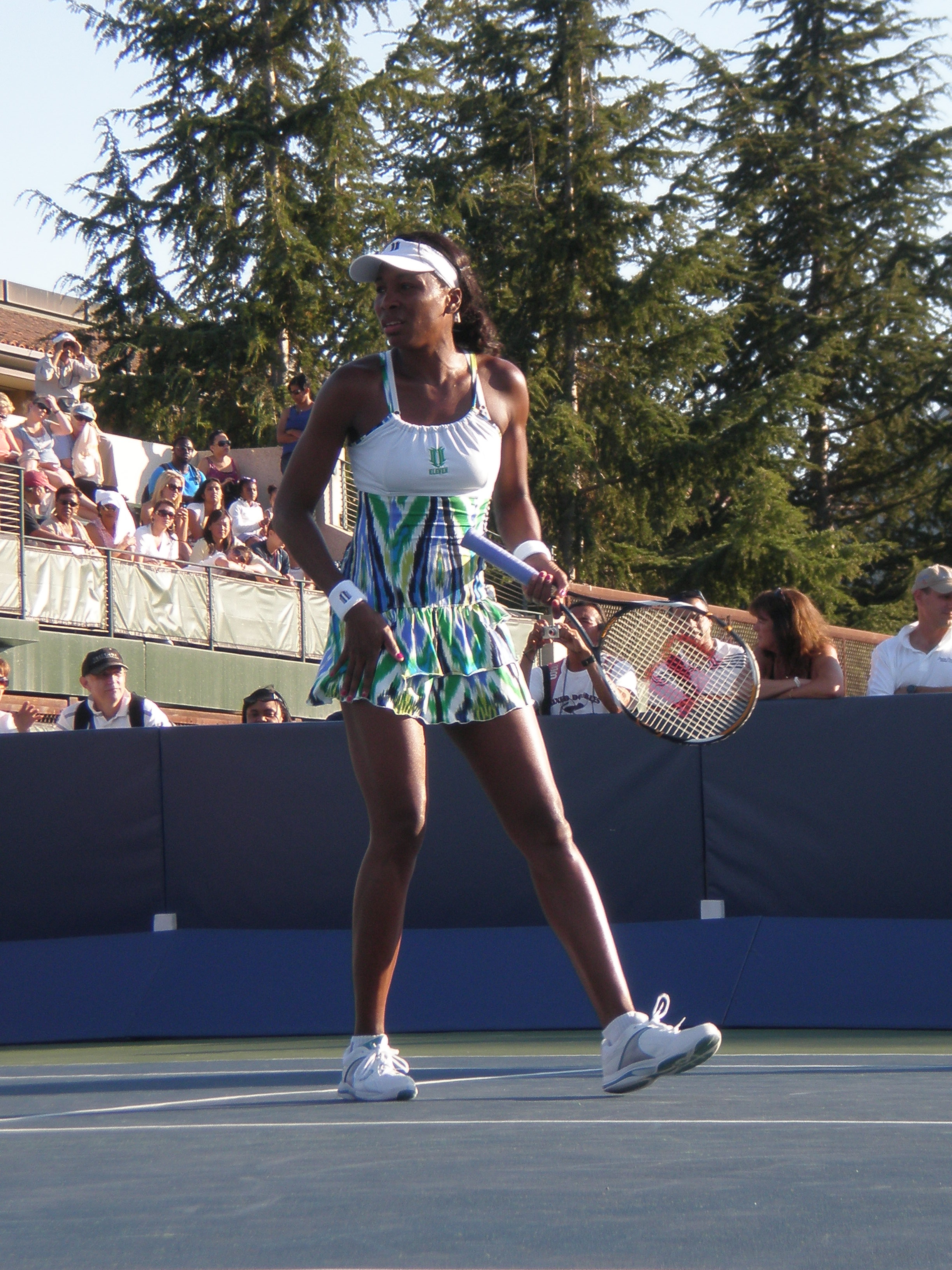 Venus Williams competing in a doubles match with her sister Serena against Mashona Washington and Yi Chen at the Bank of the West Classic in Stanford, California. The Williams sisters won in straight sets.